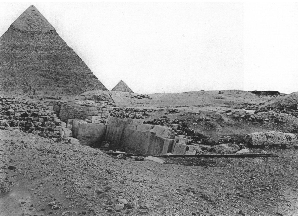 Mastaba of Nefer (G 2110), east face and exterior chapel